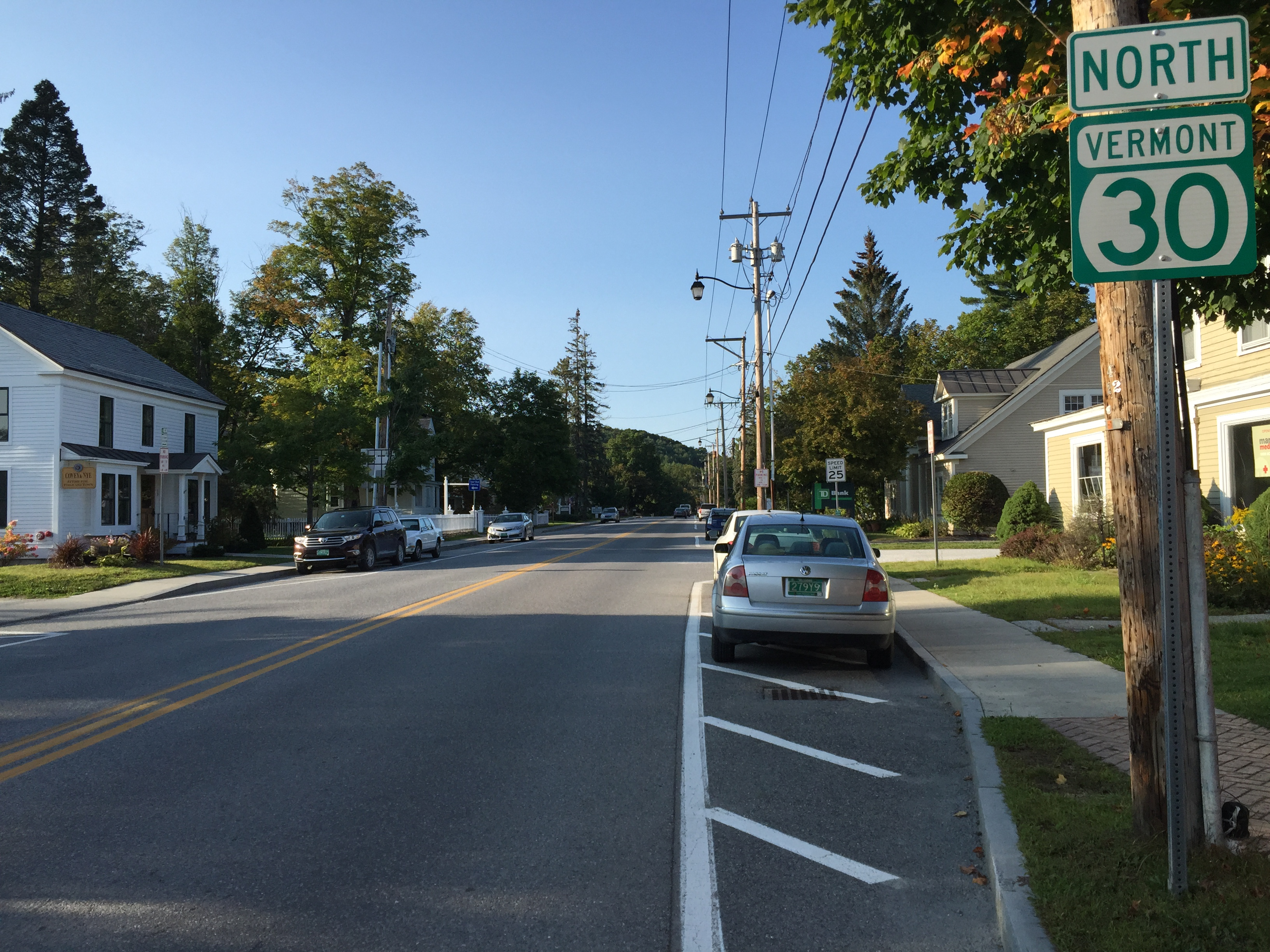 View north along Vermont State Route 30 (Bonnet Street) at Historic Vermont State Route 7A (Main Street) in the Manchester Center section of Manchester, Bennington County, Vermont